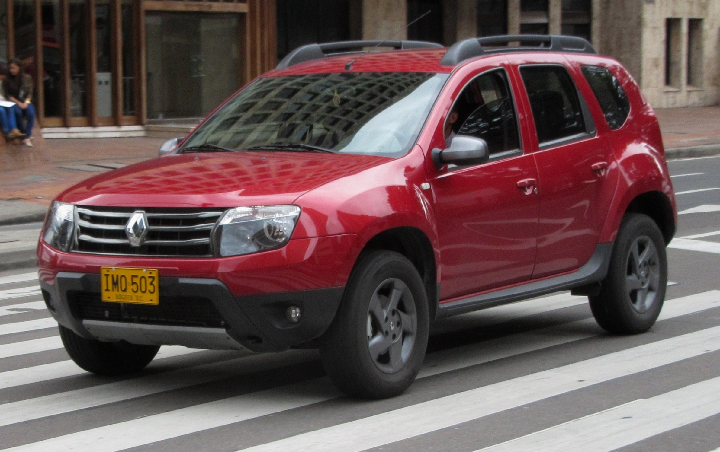 Bogotá